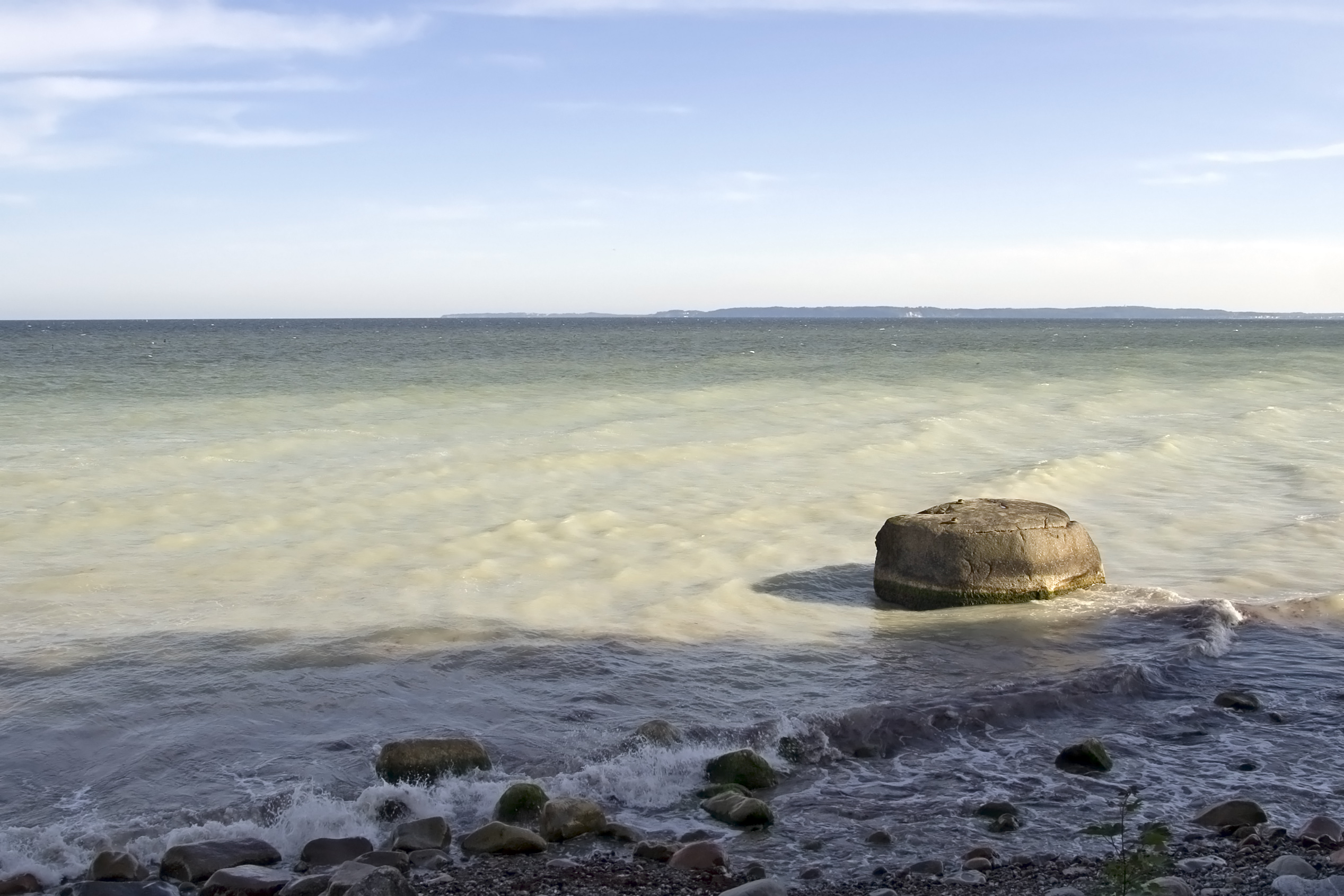 Uskam or Klein Helgoland (Glacial erratic near Sassnitz, Rügen Island, Germany)